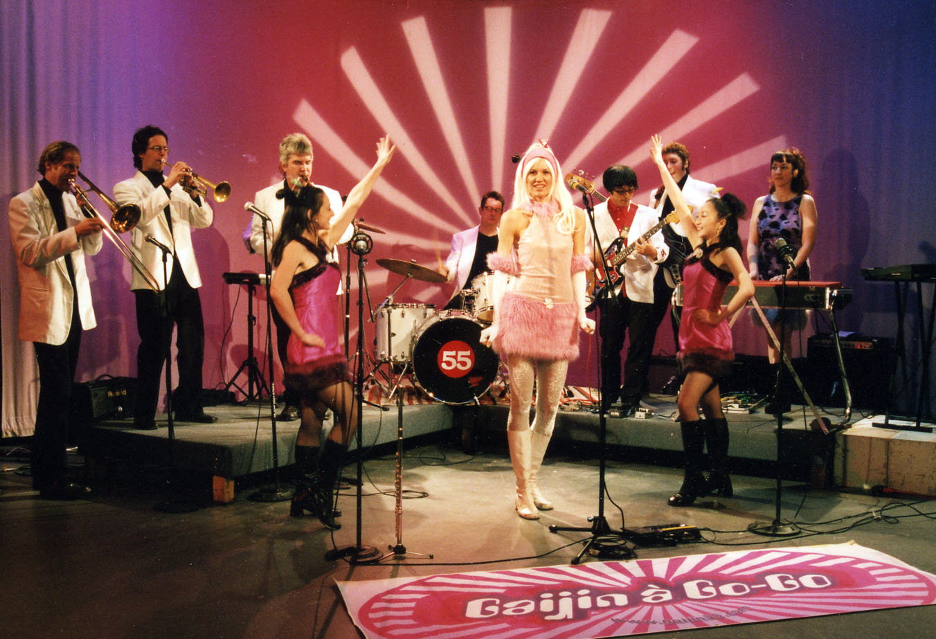 Gaijin à Go-Go on the Checkerboard Kids TV show, NYC, 2005